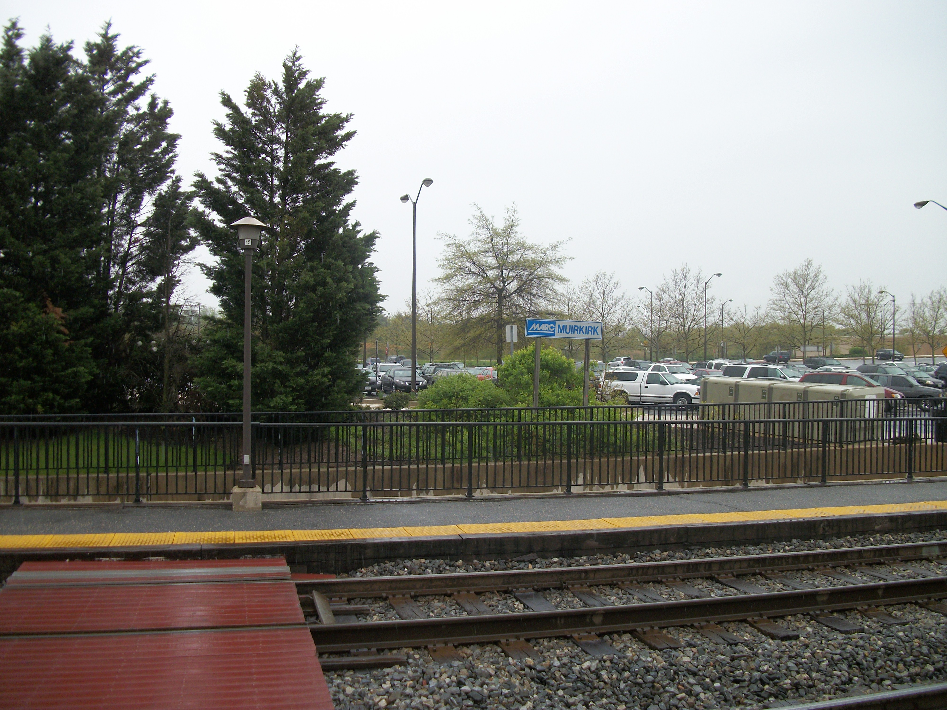 The northbound platform of Muirkirk (MARC station) in Beltsville, Maryland. Note the 3 to 4 foot deep concrete storm drain behind the platform.